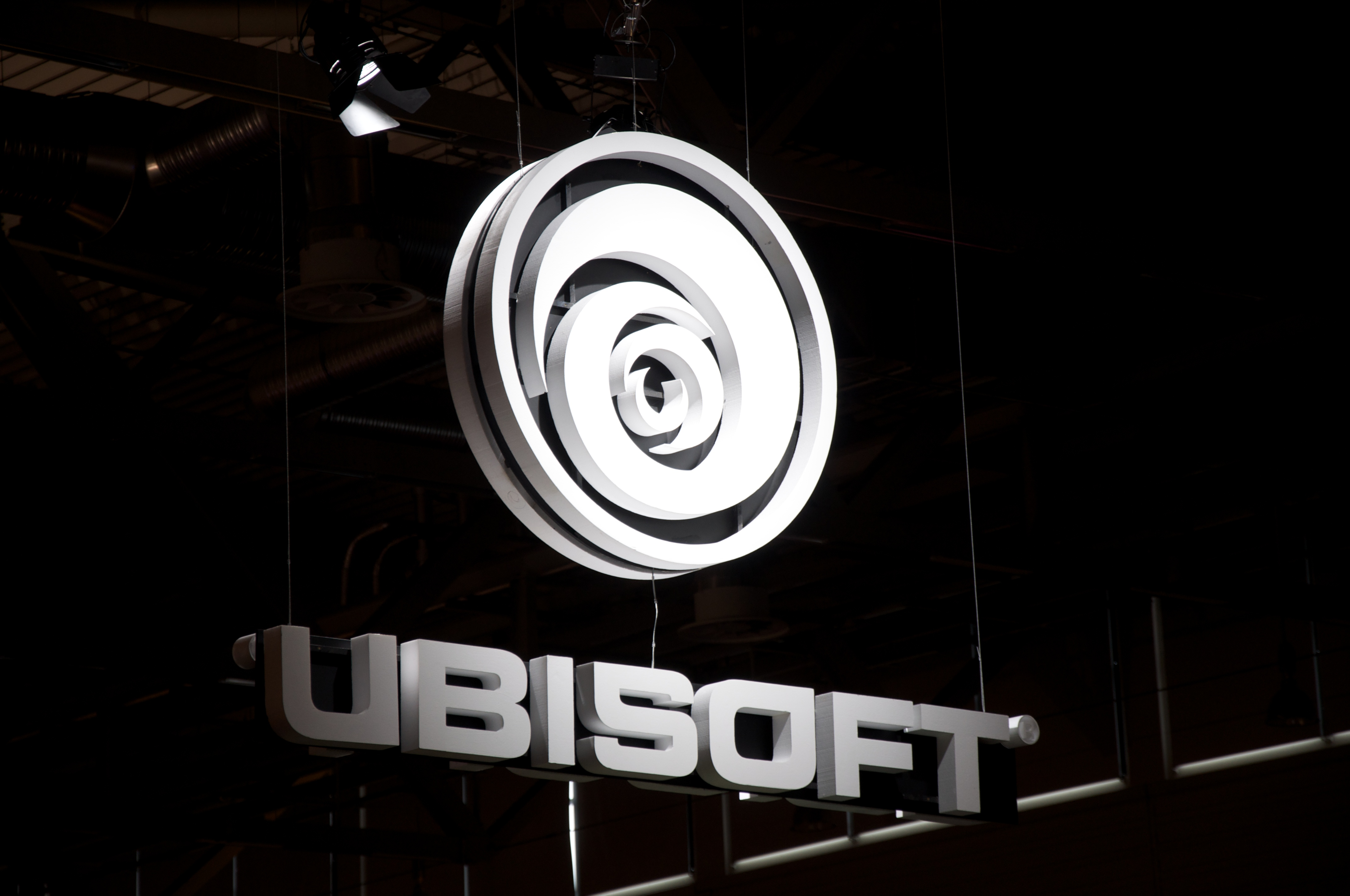 Ubisoft